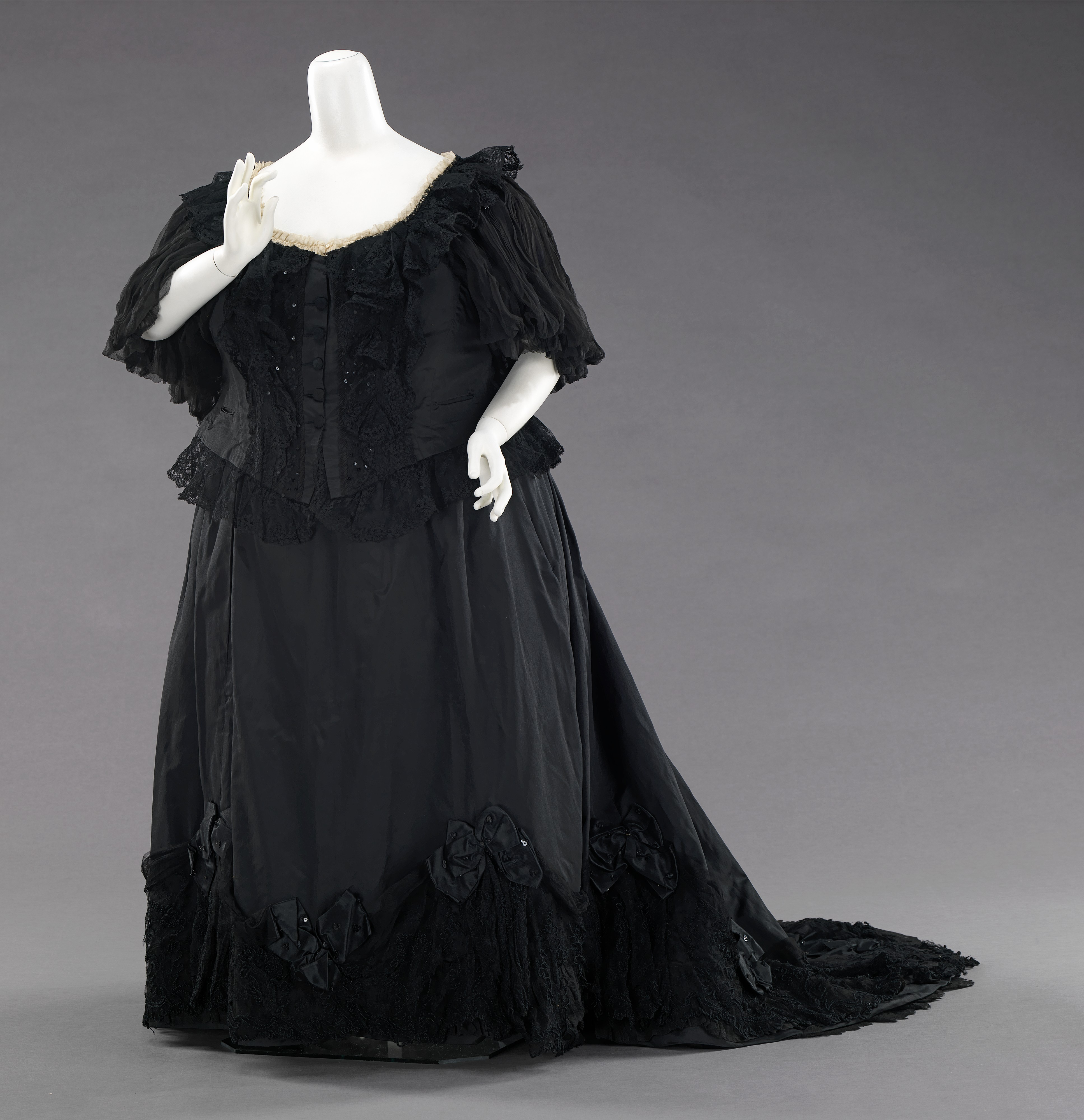 British; Mourning dress